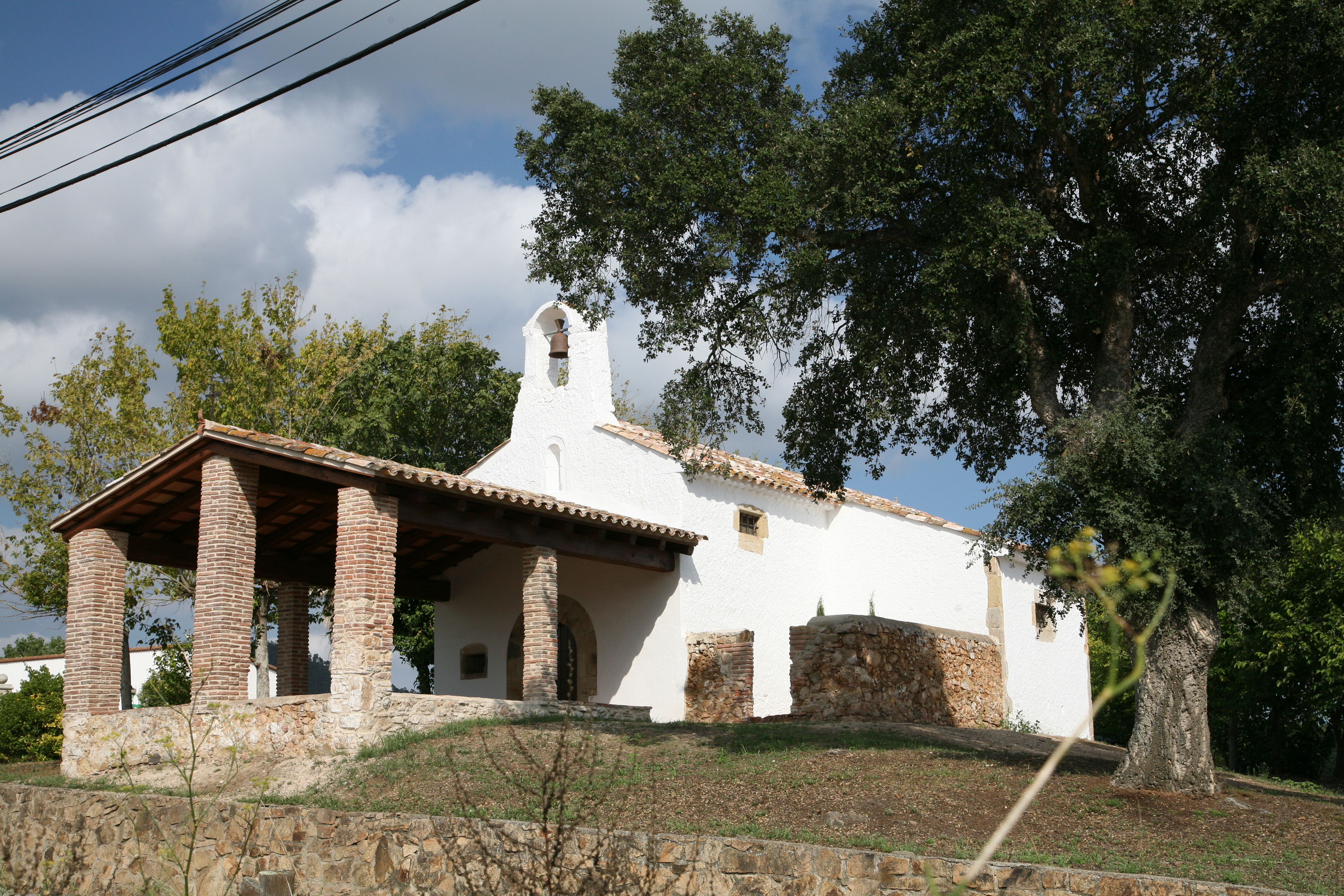 IPA-9264 Tordera Sant Daniel Chapel